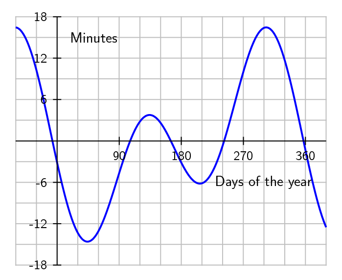 Equation of time